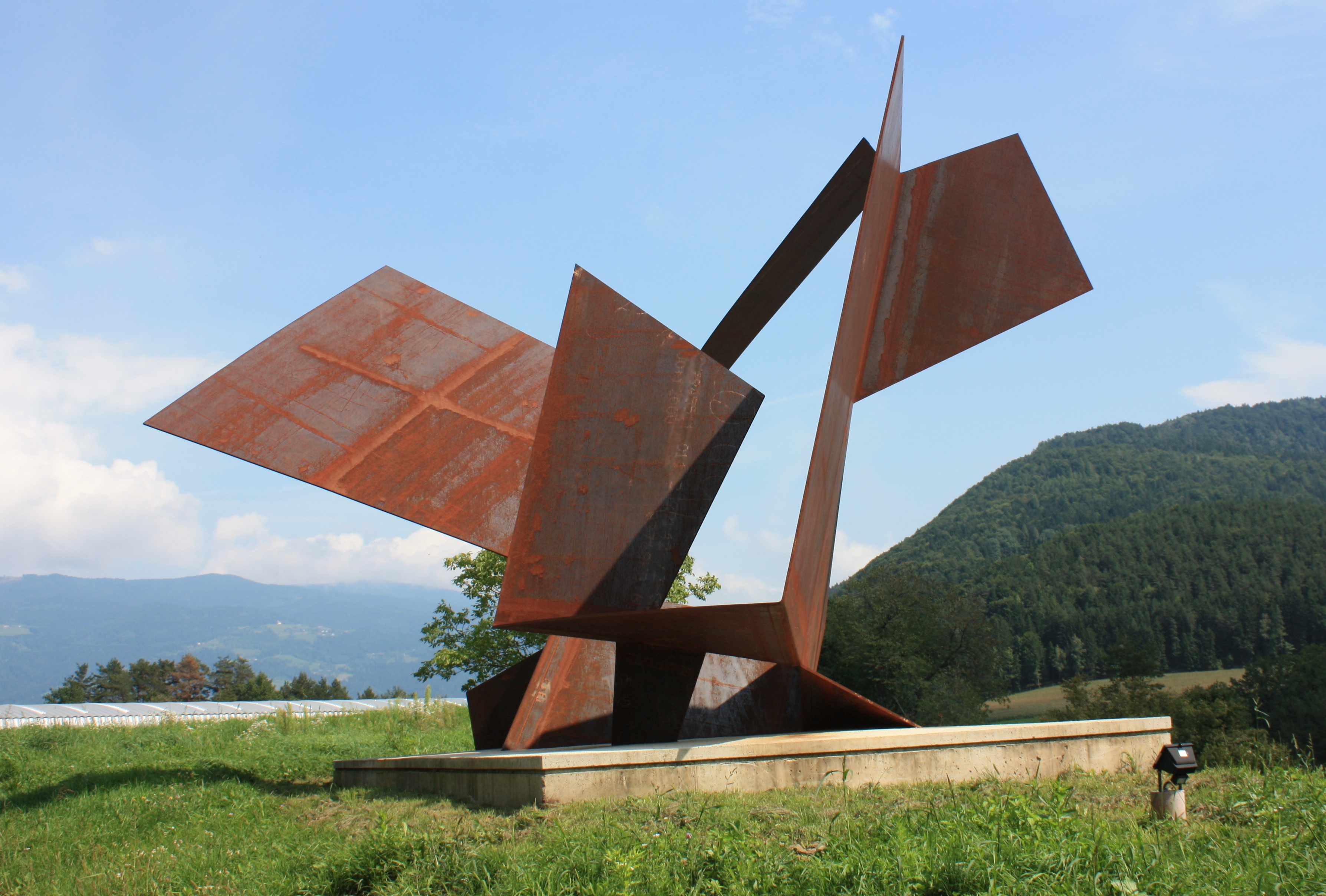 Museum Liaunig -Skulptur „Raumentfaltung für H.L. 1950/2008“ by Josef Pillhofer (1921-2010) Locality: Neuhaus/Suha Community:Neuhaus